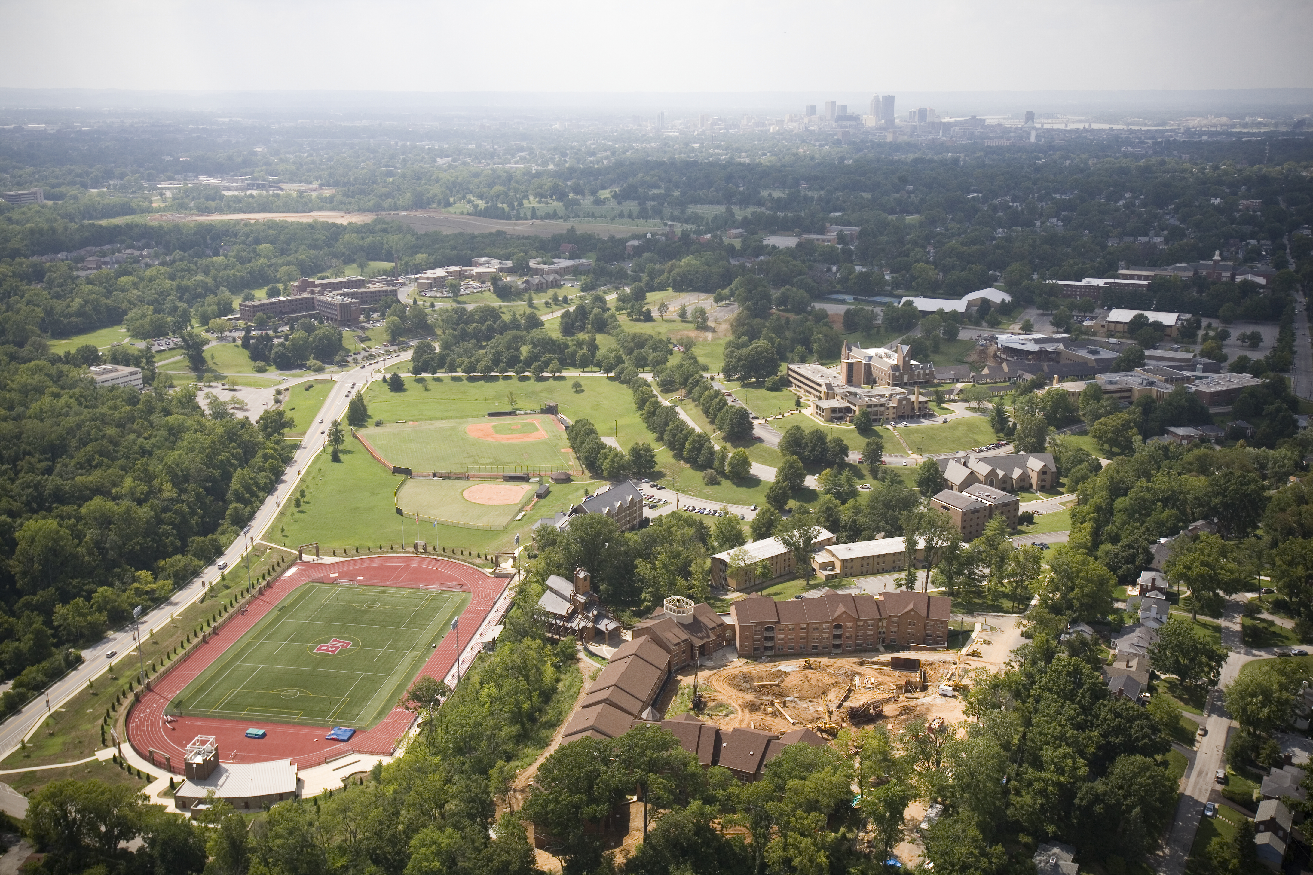 A aerial view of the Bellarmine University campus. I was given the opportunity to tour louisville from the sky and this is one of many photos I took.